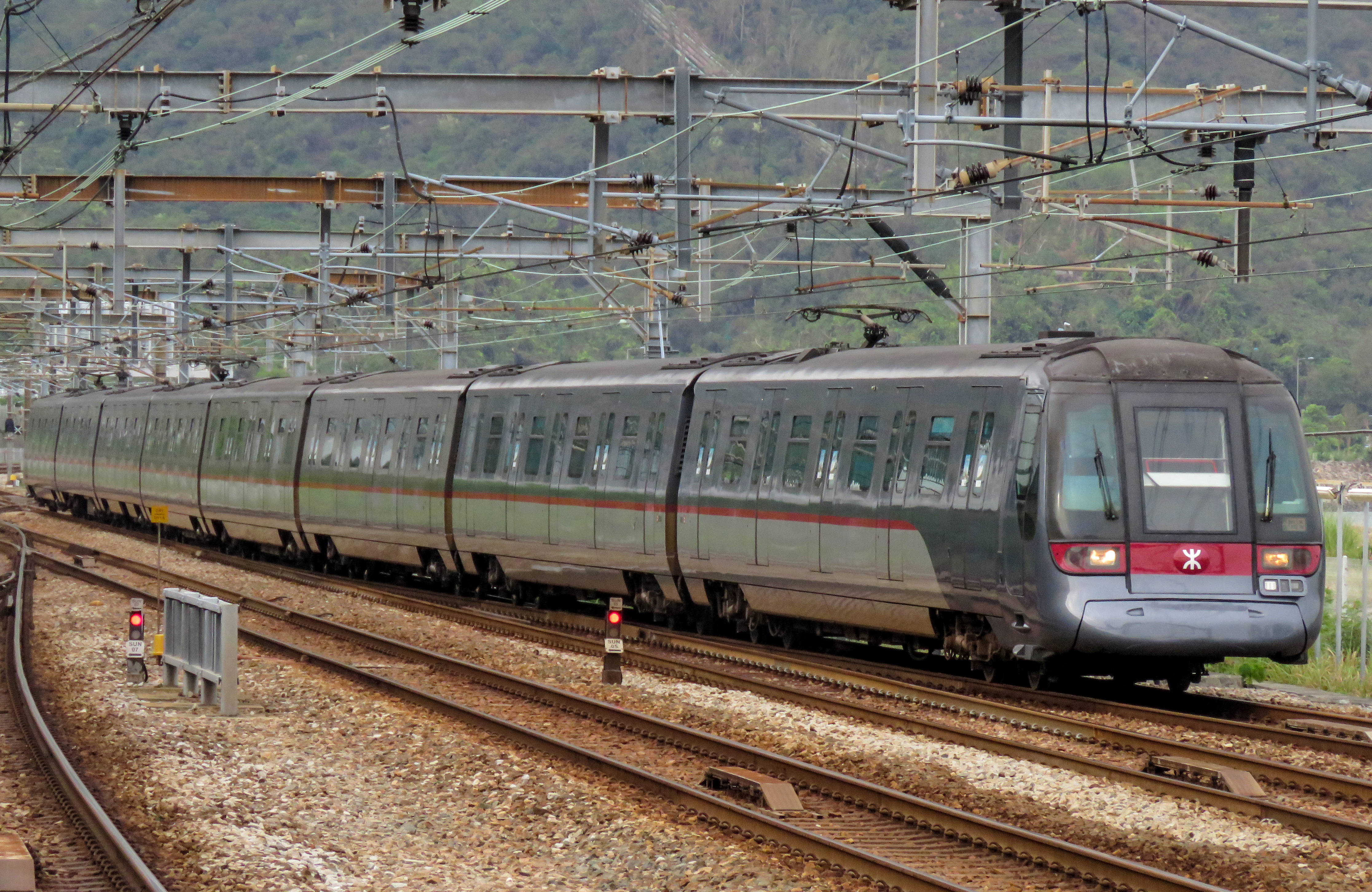 ADtranz-CAF trains are more common.